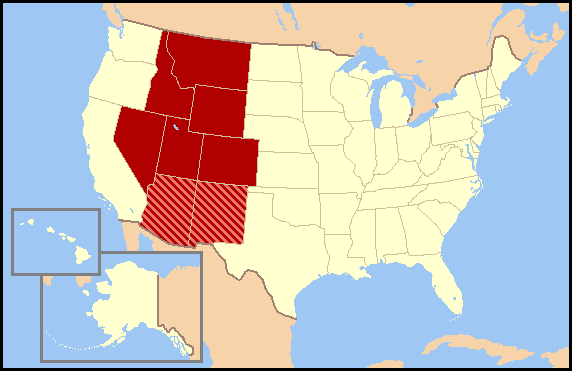 The maps series from the English wikipedia's Wikiproject: United States regions. The maps attempt to show, the various definitions of the regions without endorsing one over another.